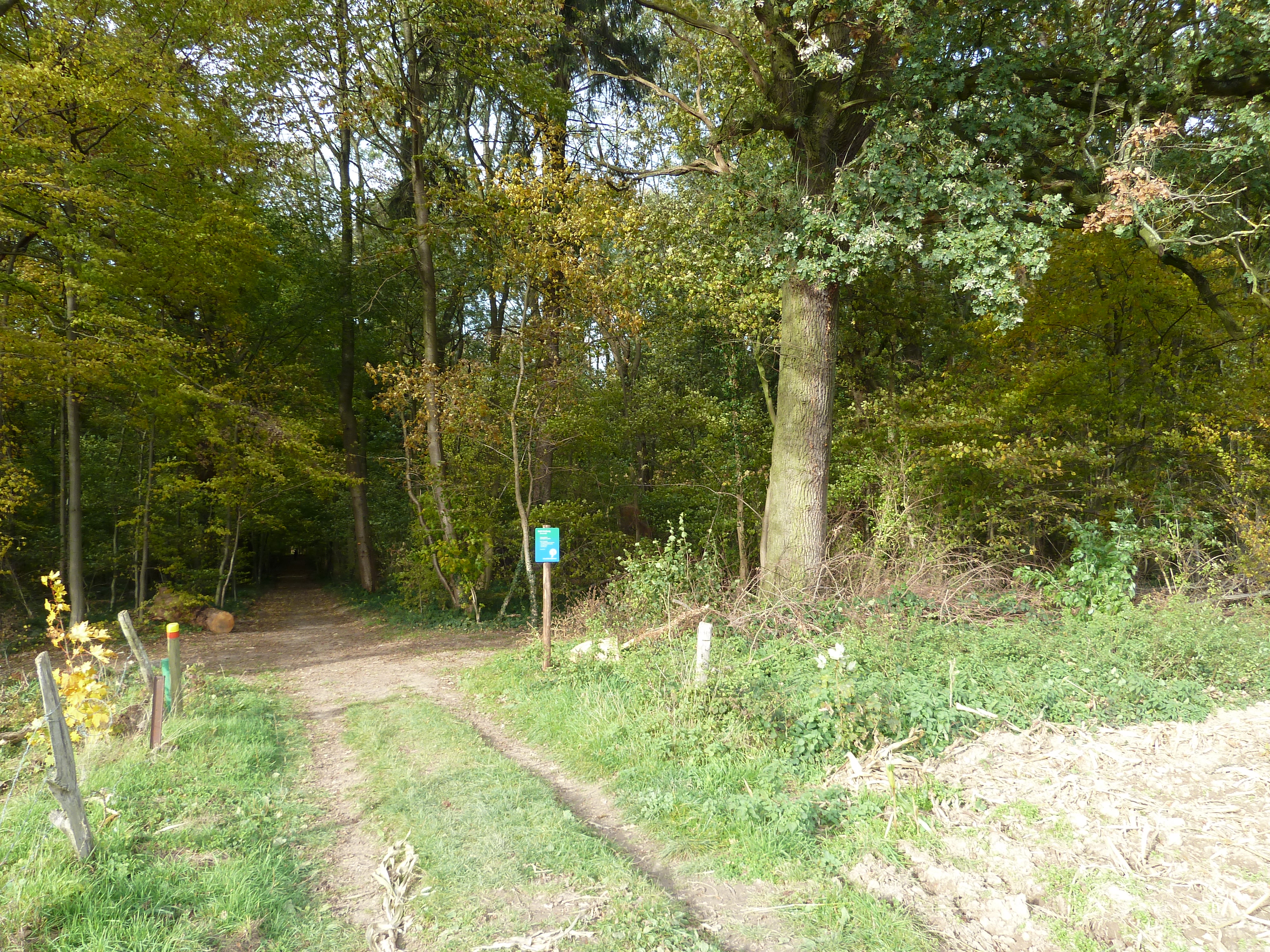 Heidebergweg near Biebosch (area with an archeological monument), Sibbe, Limburg, the Netherlands